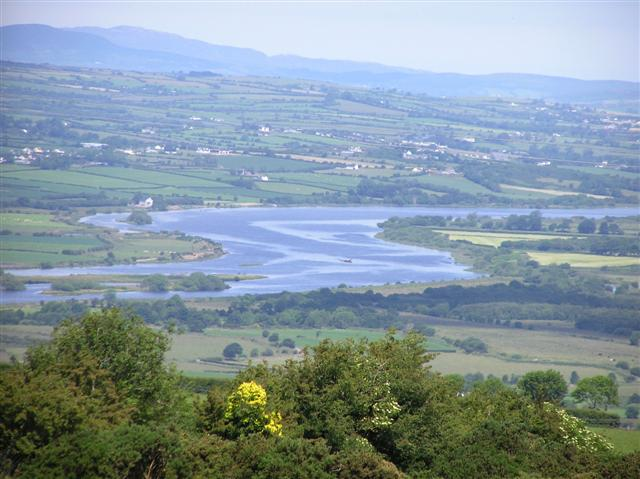 Close-up of the Foyle River. Zoomed in from the slopes of Holly Hill, Strabane.